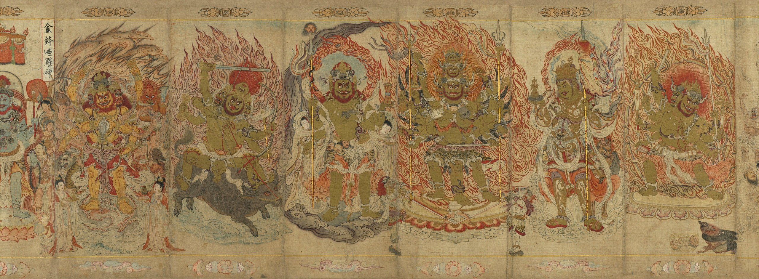 Kingdom of Dali Buddhist Volume of Paintings (portion). Scroll, Ink and color on paper. 30.4 cm high. Located in the National Palace Museum, Taibei. The entire work is 16.655 meters. It was created in the Kingdom of Dali (now Yunnan Province).